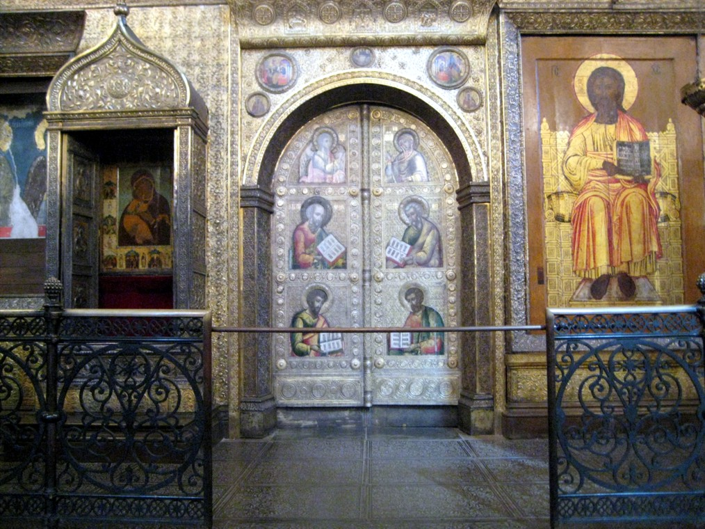 Portion of the iconostasis of Uspensky Cathedral, in the Kremlin.